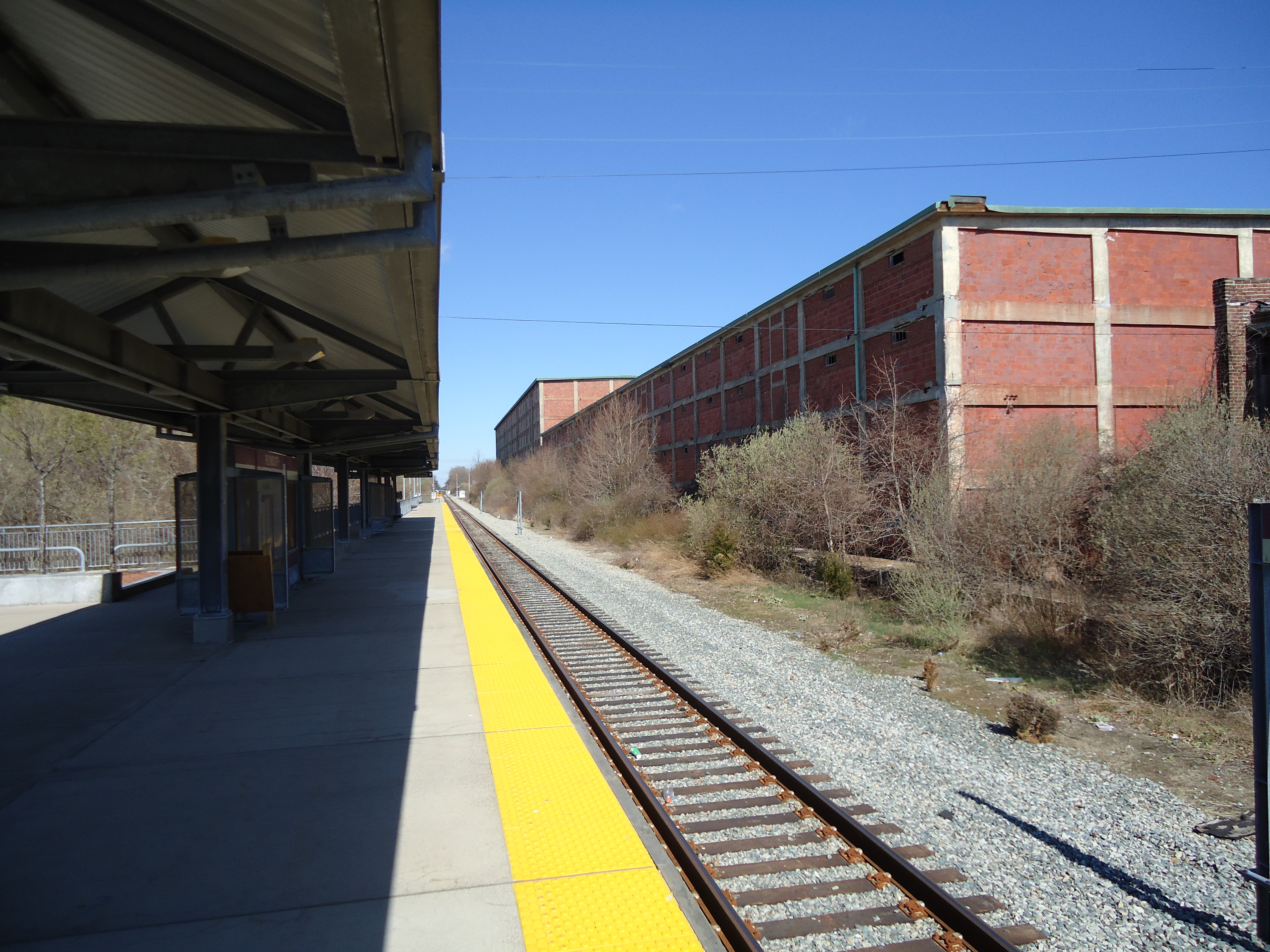 Facing inbound at Plymouth MBTA station